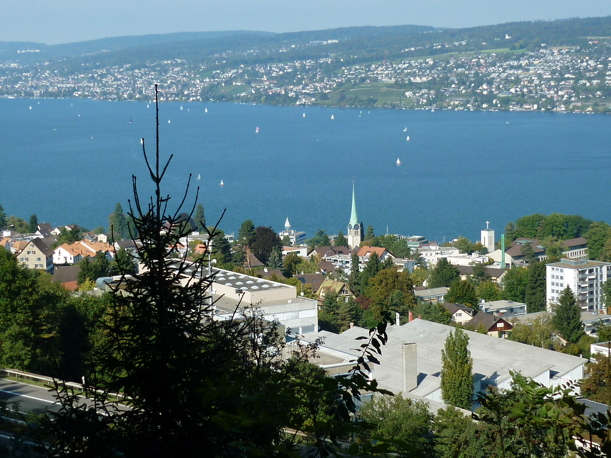 Horgen ZH, Switzerland